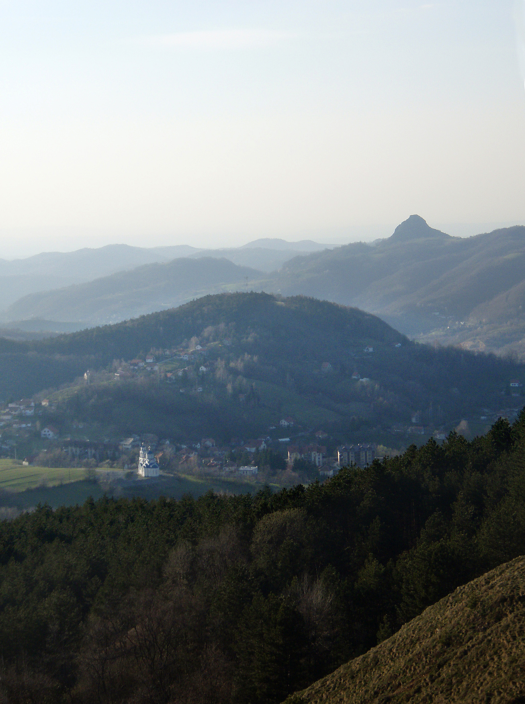 Panoramic view of Rudnik, Serbia